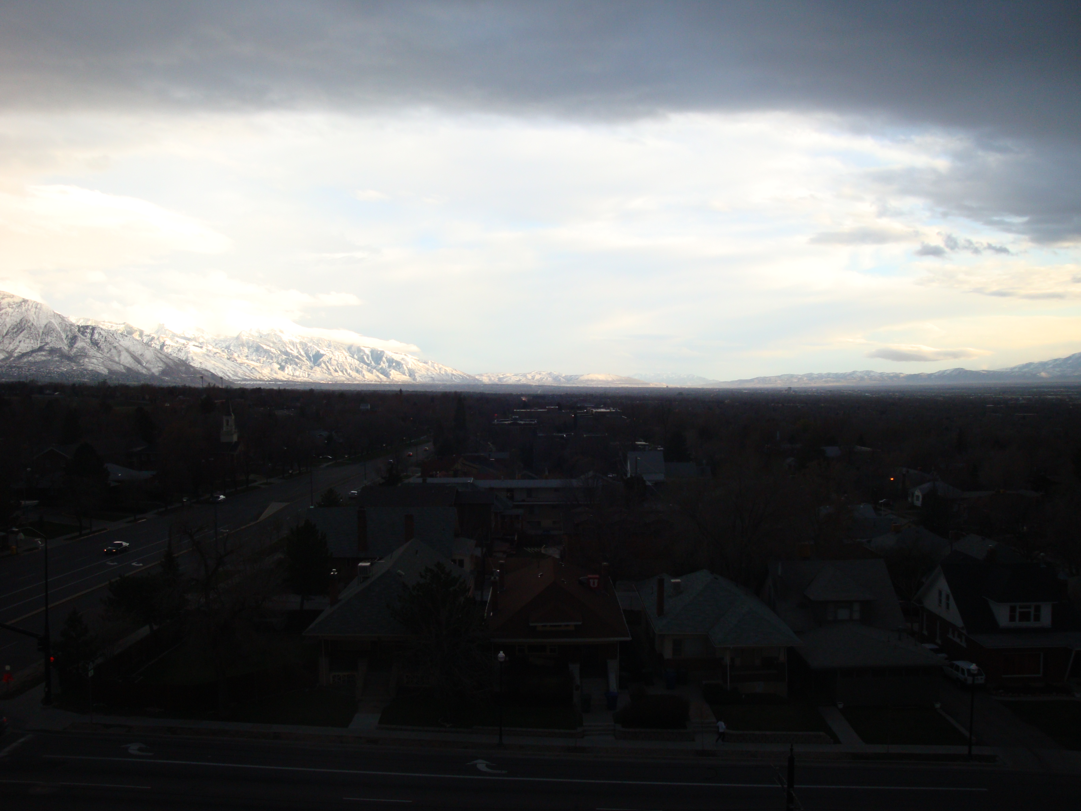 Salt Lake City on a cloudy April afternoon.